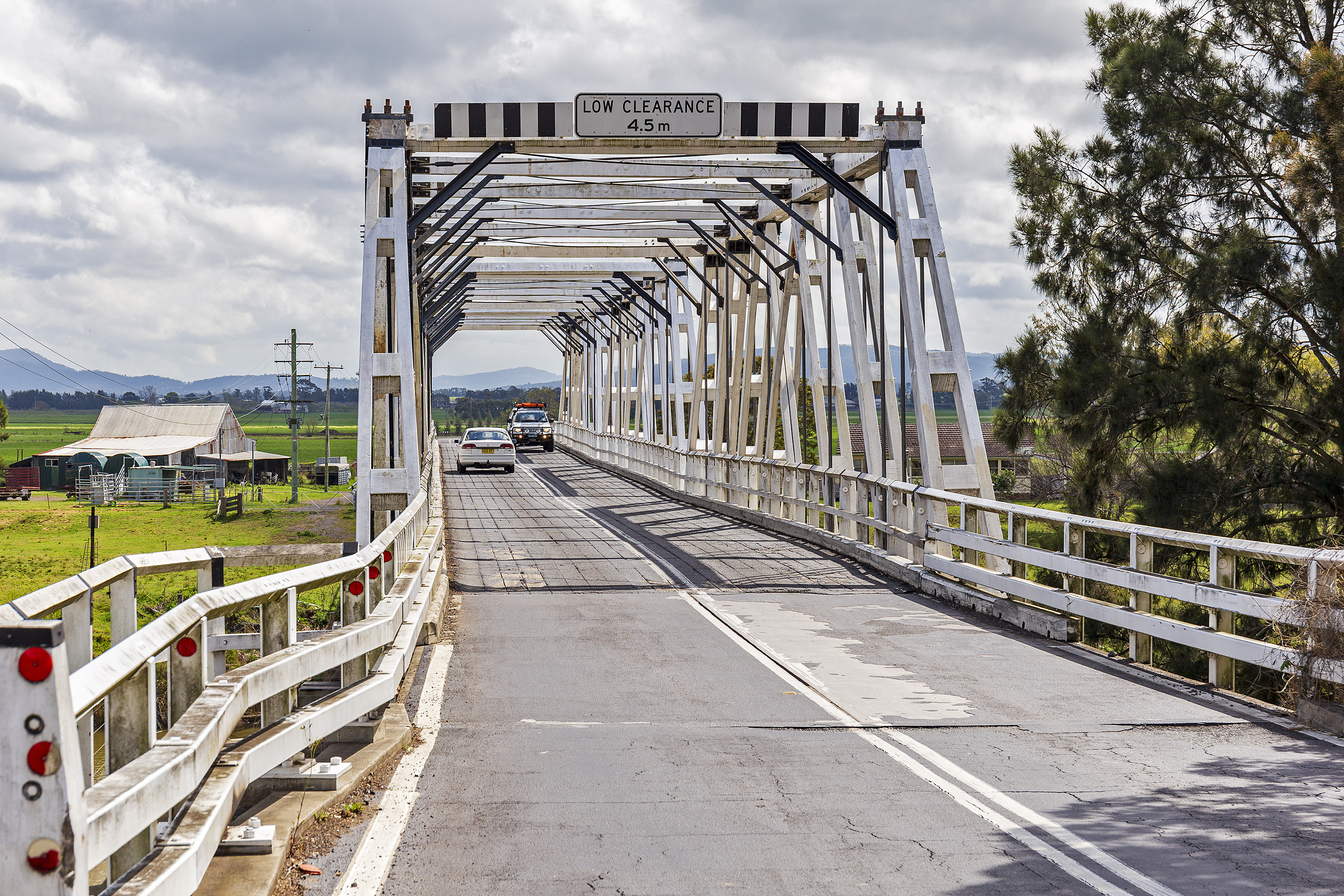 Morpeth Bridge over the Hunter River